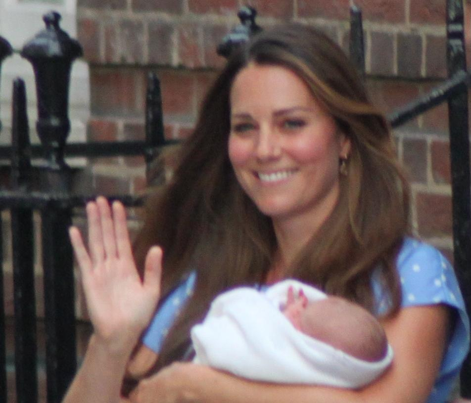 The Duke and Duchess of Cambridge with Prince George outside the Lindo Wing of St Mary's Hospital